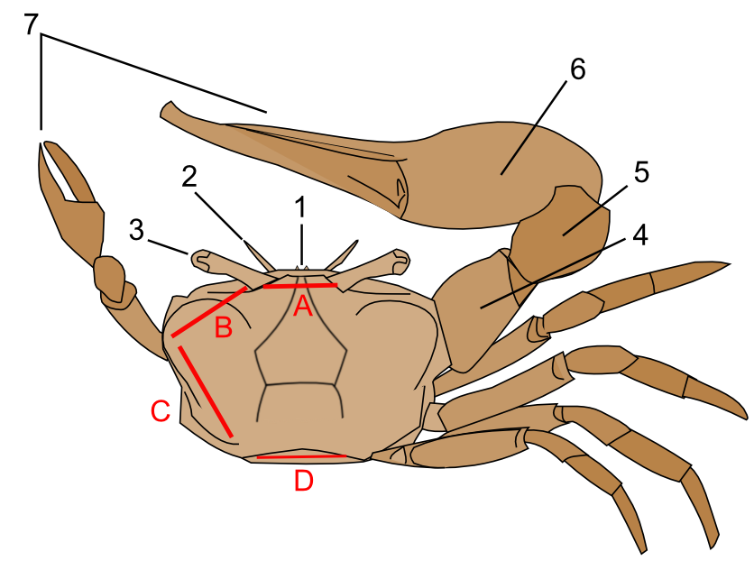 Anatomy scheme of a Fiddler crab (Genus: Uca)